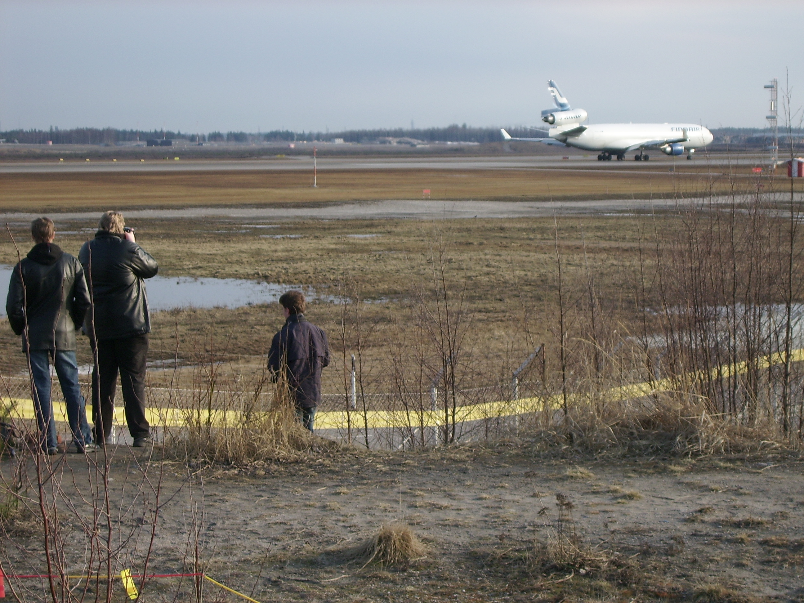 Plane spotters at Helsinki-Vantaa Airport in Vantaa, Finland. A Finnair MD-11 taking off on the background.